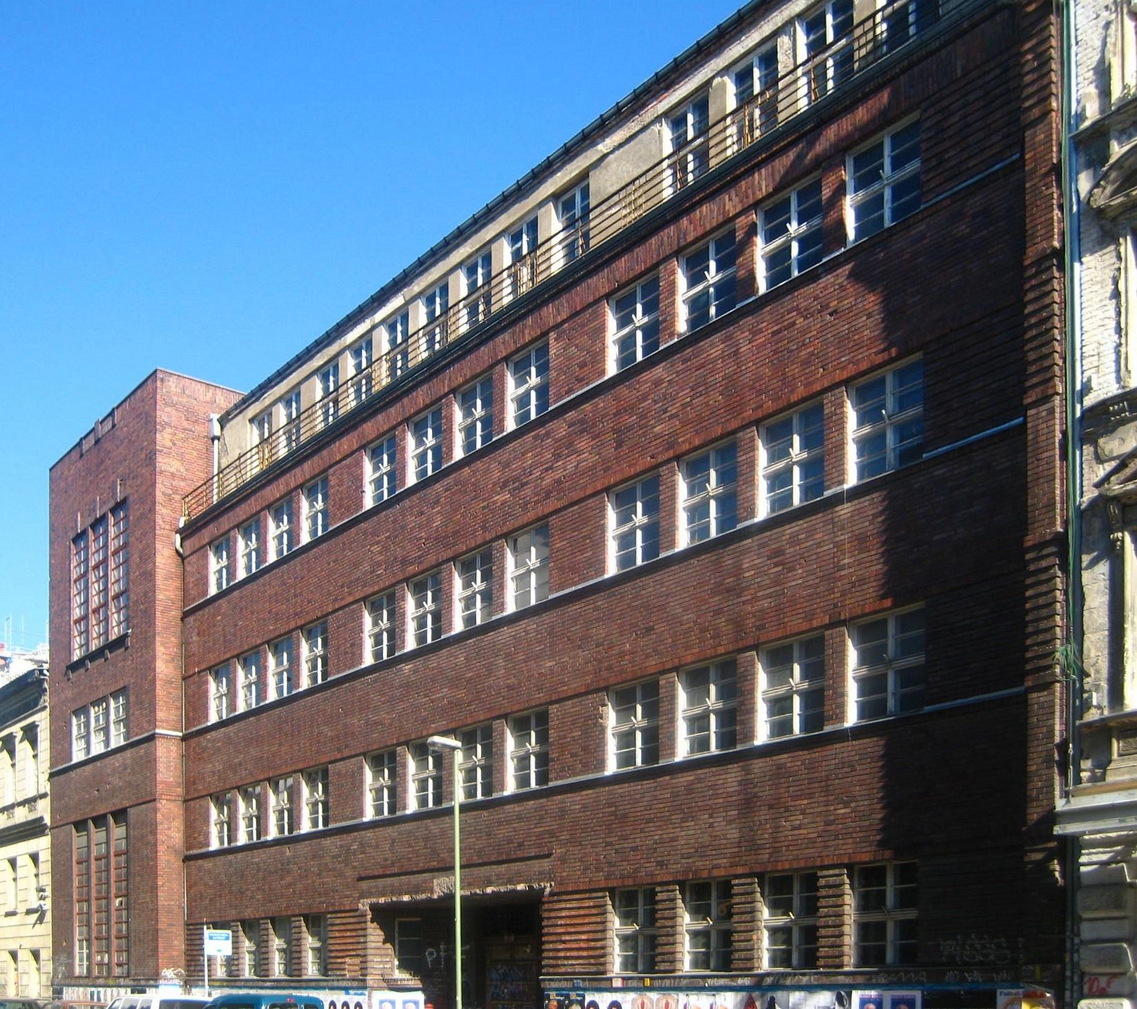 The former Jewish Girls School at Auguststraße No. 11-13 in Berlin-Mitte. The building was constructed from 1927 to 1928 to a design by Alexander Beer. The architecture of the brick building shows influences of Expressionism and Neue Sachlichkeit. Like the neighboring complex of the former Jewish Hospital, the building stands empty. It has been designated as a historic landmark.